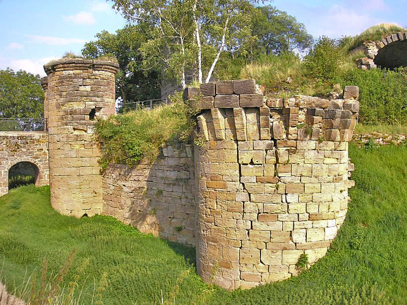 Altenstein castle (Markt Maroldsweisach, Landkreis Haßberge, Lower Franconia, Germany). Northwestern tower and the gate